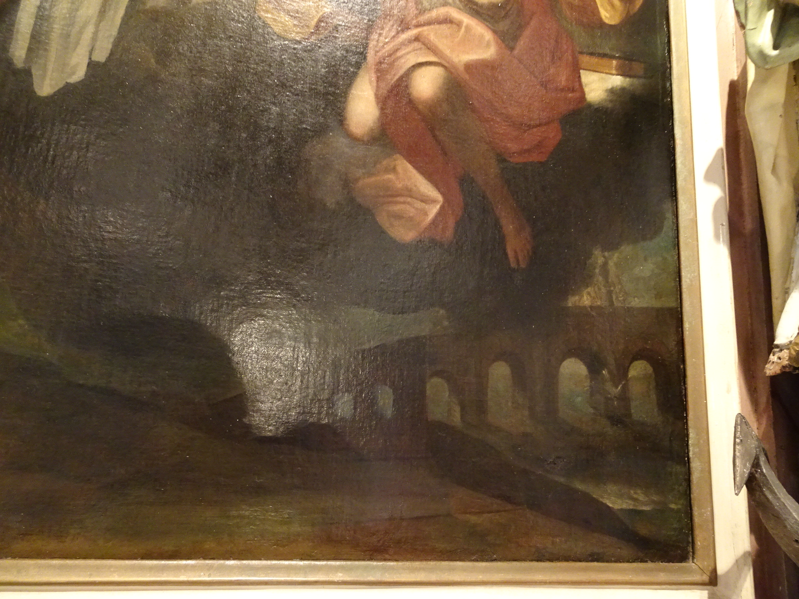 Part of the altarpiece of the martyr John of Nepomuk, showing when he was thrown into the river from Charles bridge in Prague. Church of Virsbo, Surahammar municipality in Sweden.